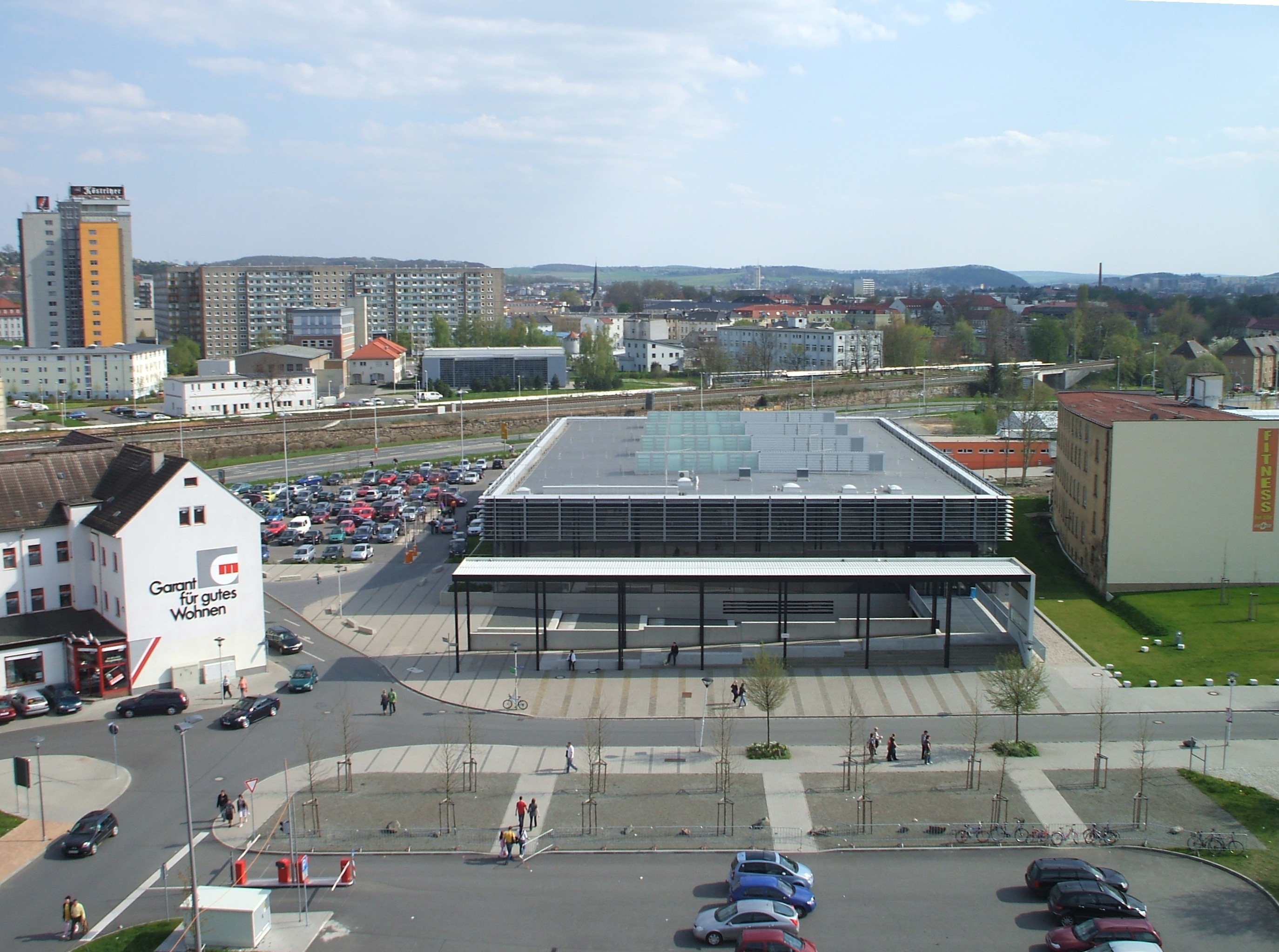 Panndorfhalle, Gera, Germany